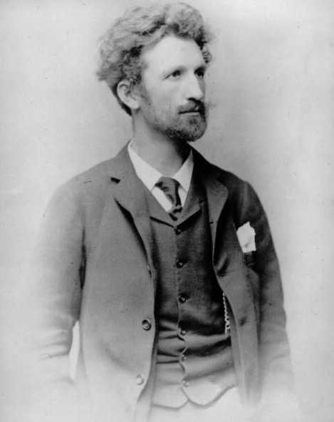 Robert Bontine Cunninghame Graham (1852-1936)